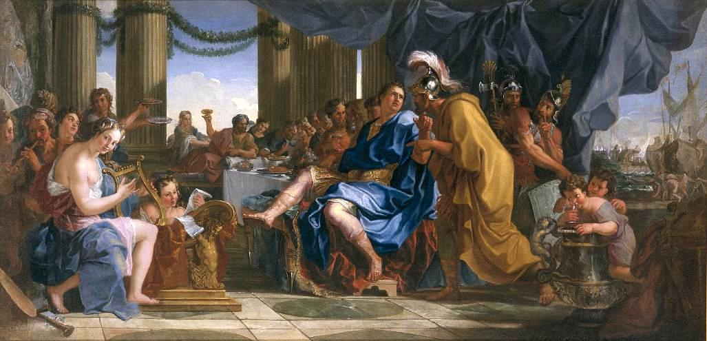 Nero Ordering the Murder of his Mother Musée de Grenoble (France - Grenoble) Dates: Date unknown Dimensions: Height: 138 cm (54.33 in.), Width: 283 cm (111.42 in.)